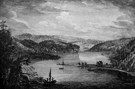 A_view_of_Gaspe_Bay,_ - drawn during James Wolfe Campaign (1758)